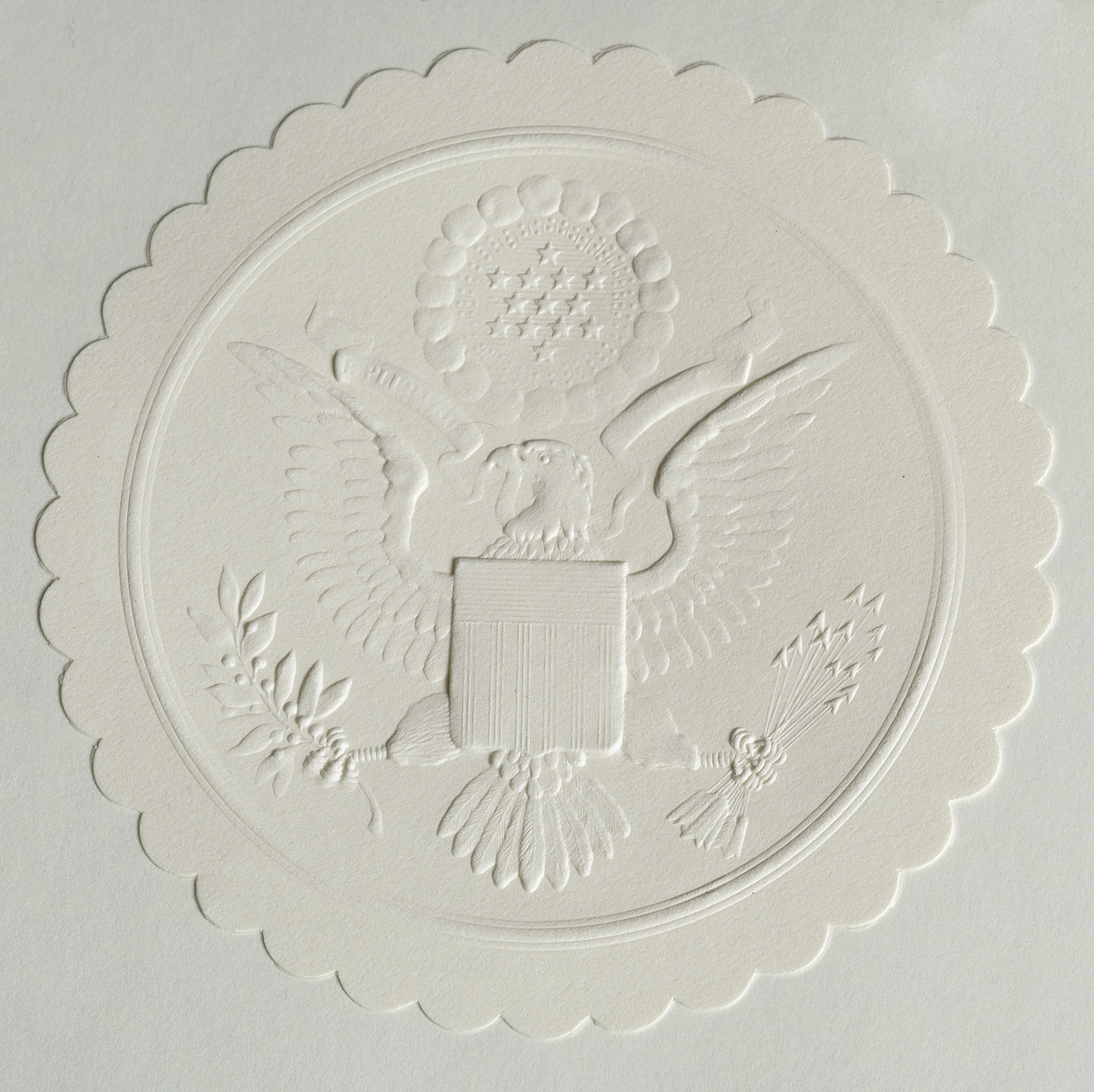 Paper seal wafer, after being imprinted with the Great Seal of the United States. Usually the wafer is first glued to the document to be sealed prior to being imprinted.